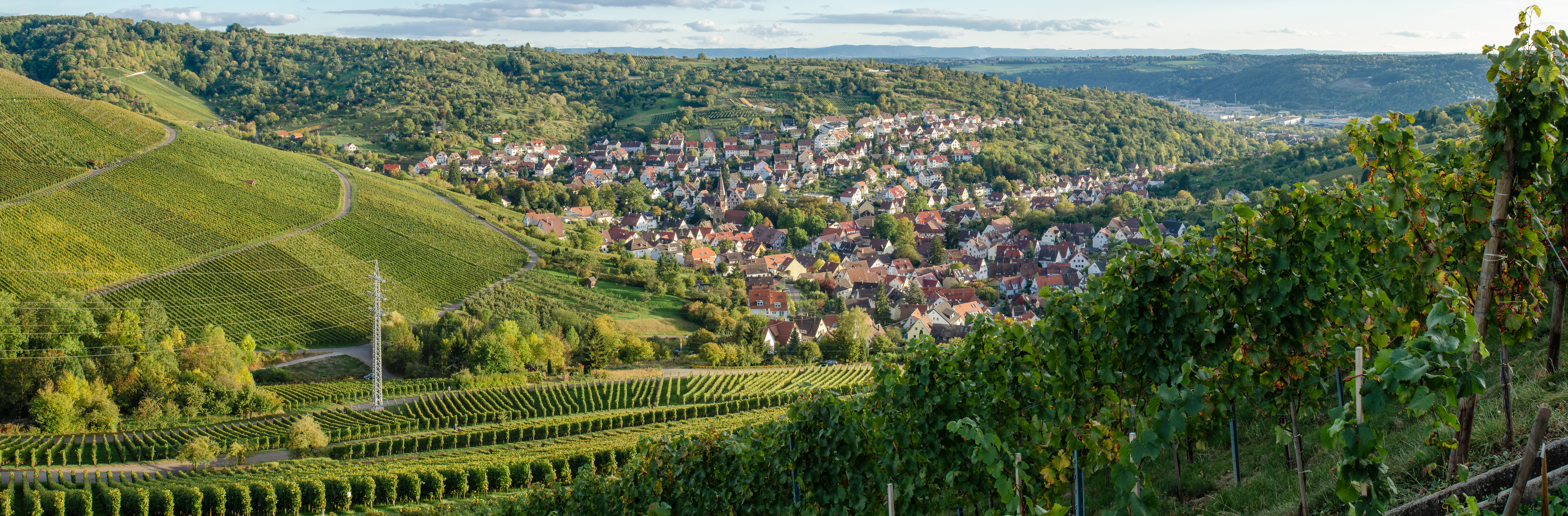 Stuttgart-Uhlbach. NOTE: This image is a panorama consisting of 3 frames that were merged in Hugin. As a result, this image necessarily underwent some form of digital manipulation. These manipulations may include blending, blurring, cloning, and color and perspective adjustments. As a result of these adjustments, the image content may be slightly different than reality at the points where multiple images were combined. This manipulation is often required due to lens, perspective, and parallax distortions.